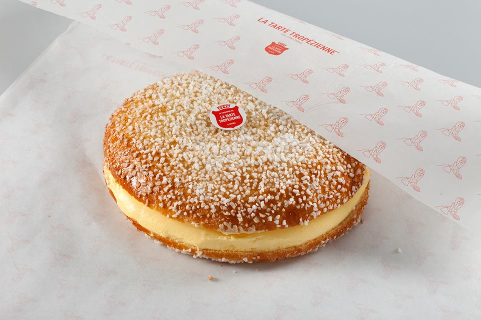 La Tarte Tropézienne, celle d'Alexandre Micka.